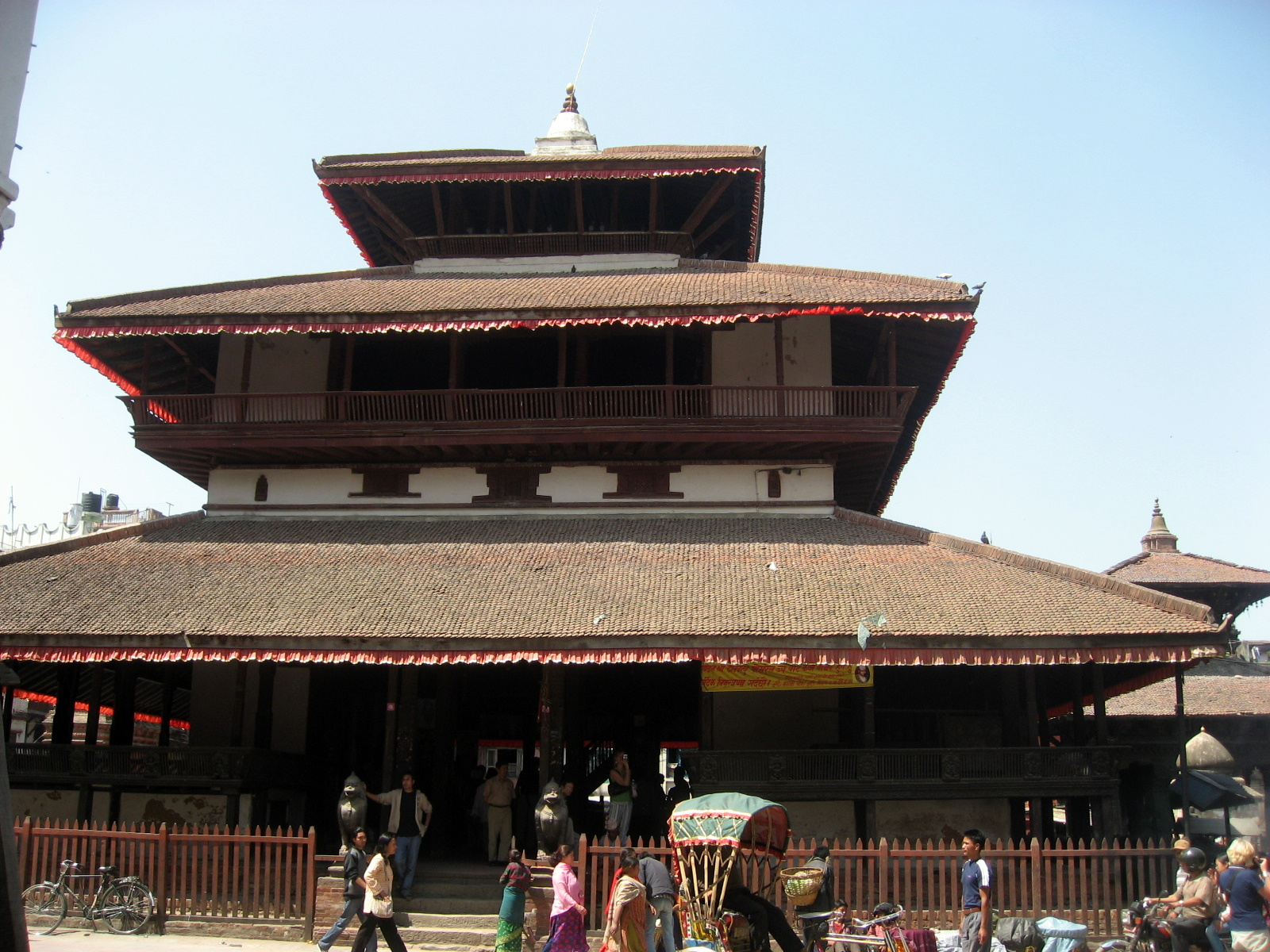 Kasthamandap. Thapathali, Kathmandu